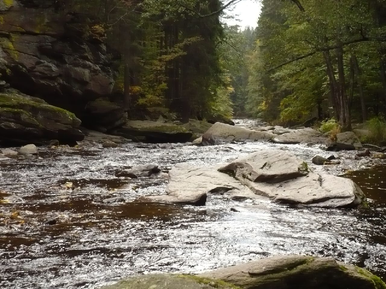 Reserve Zemska brana - Divoka Orlice river